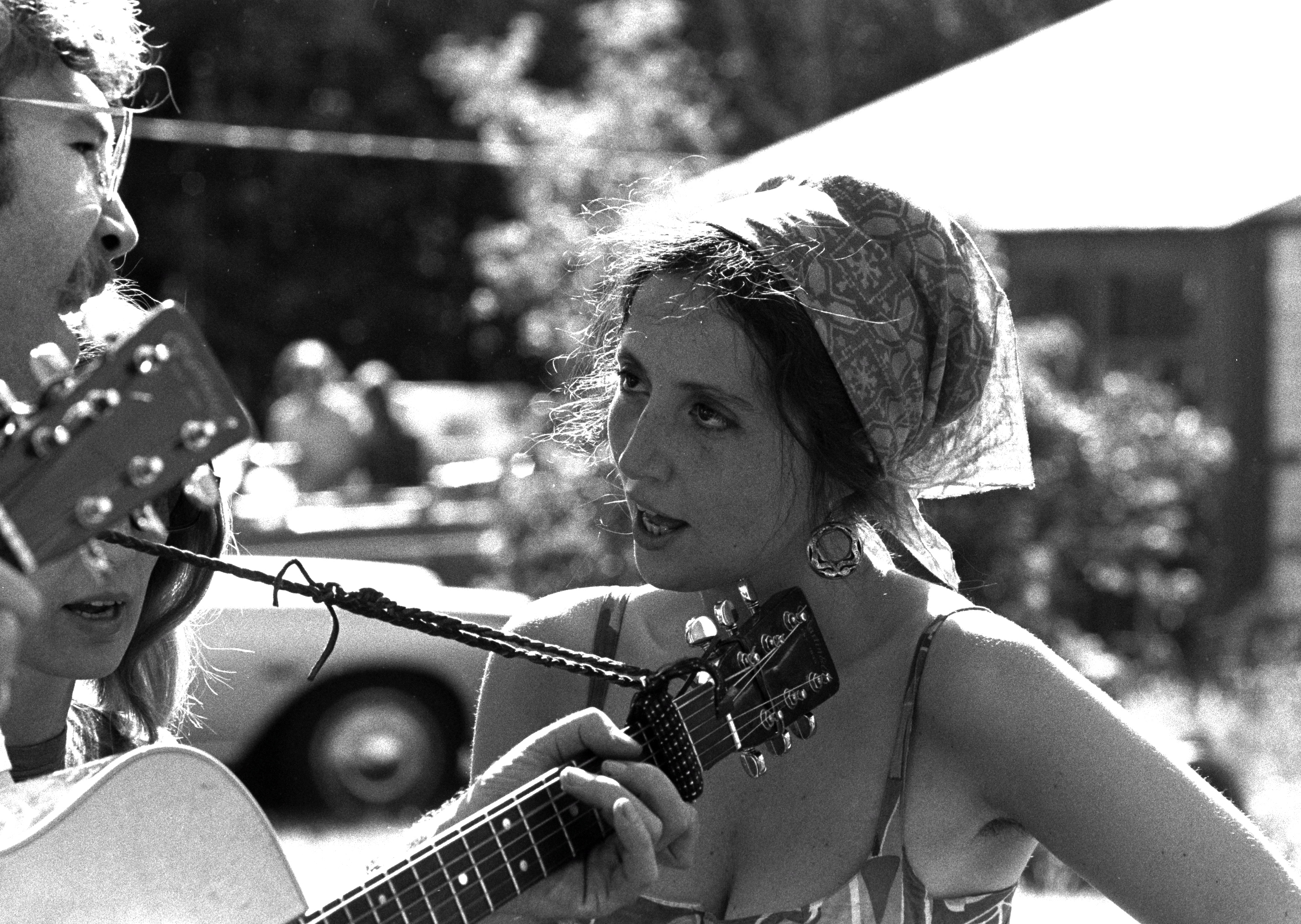 Description from Flickr page: "Maria Muldaur -- listening to, and presumably singing with, the music that was being played at a party after a 1969 Memorial Day weekend picnic on Boston's North Shore, which several of my friends and I attended. "Maria was best known for a hit song called Midnight at the Oasis in 1973, and was part of a musical folk group called the Jim Kweskin Jug Band [1] that flourished in Cambridge in the late 60s. For more details about her, click here [2]."